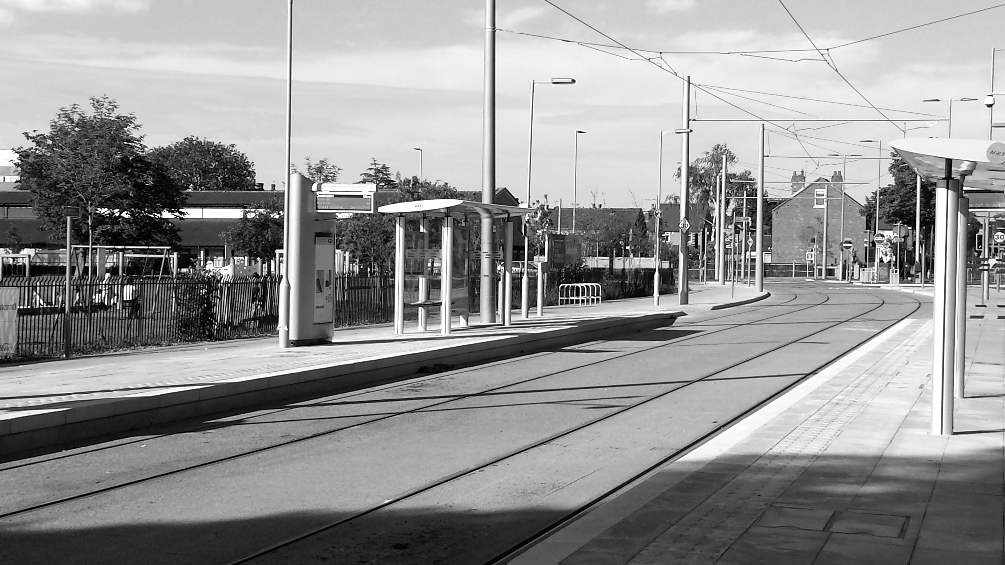 University of Nottingham tram stop during testing and before opening